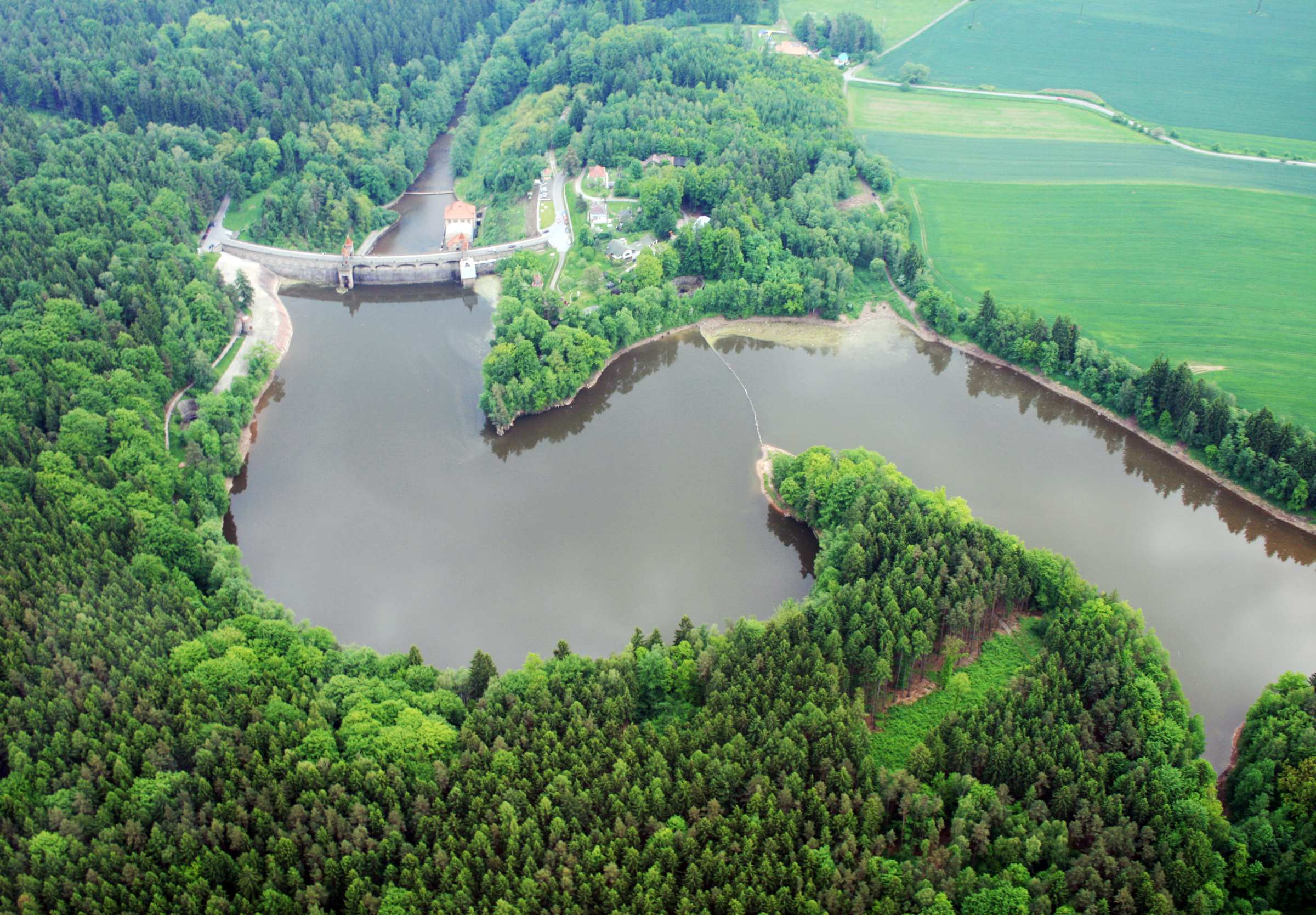 Reservoir Les Království on Elbe river from air, eastern Bohemia, Czech Republic